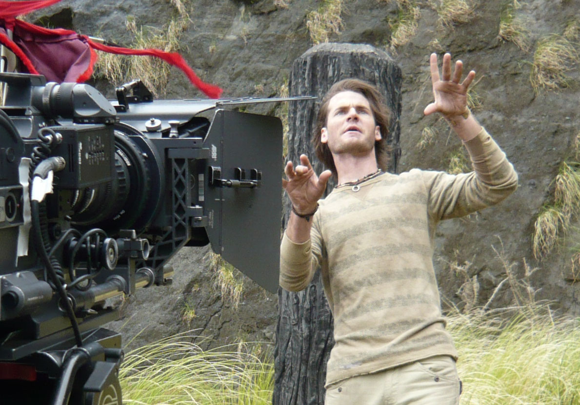 David on set.